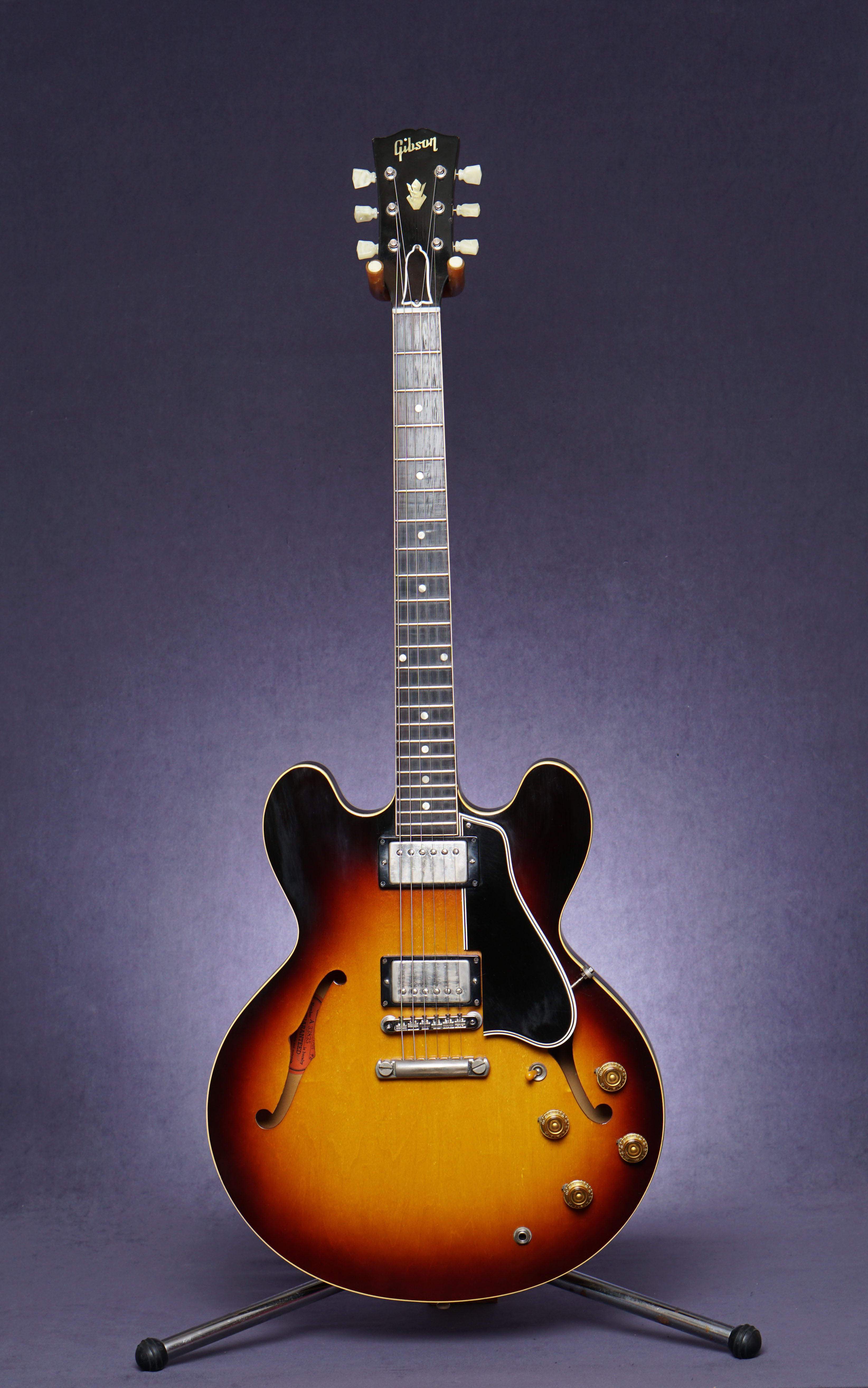 Photo of a vintage 1960 ES 335TD